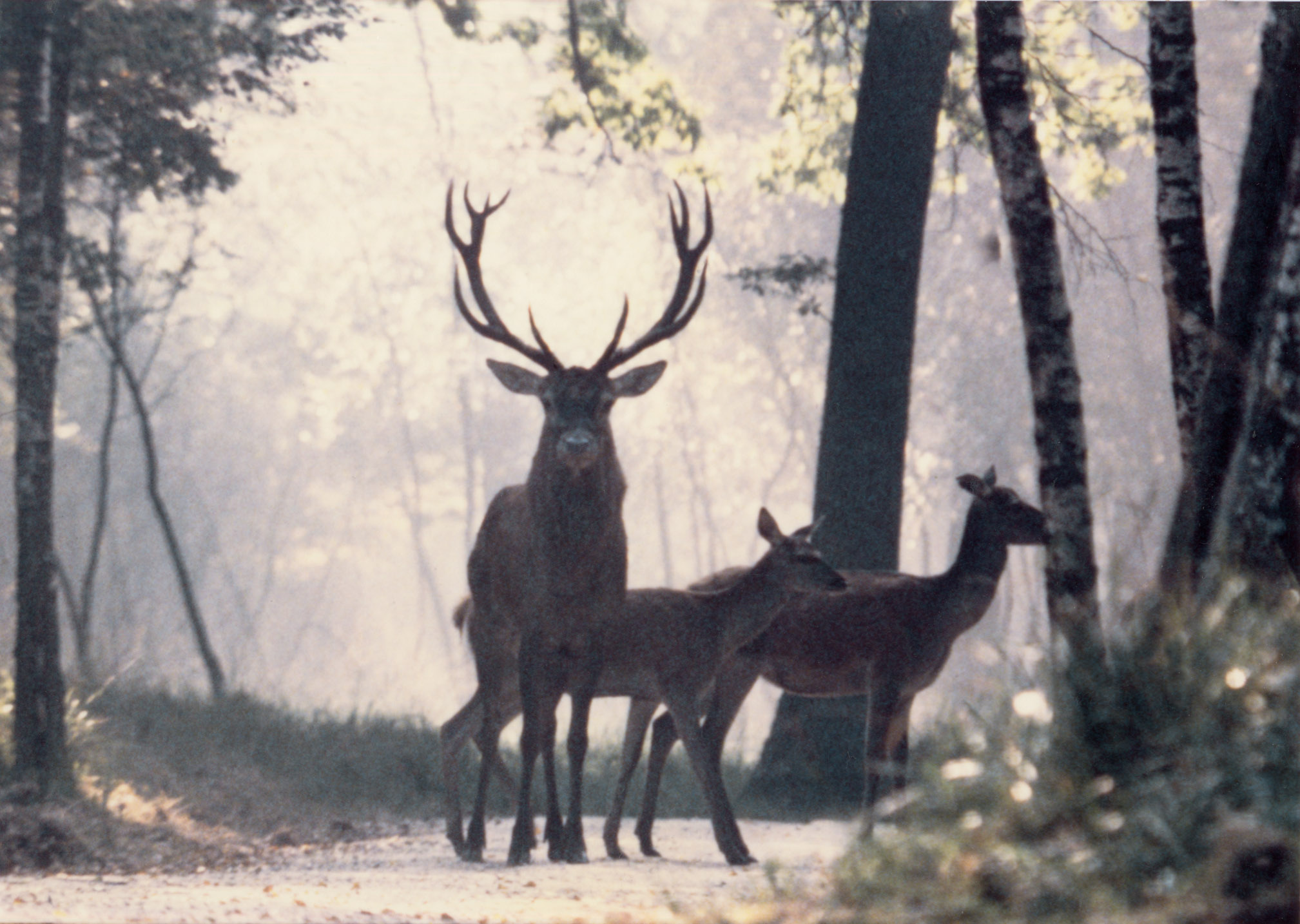 Red deers on a path in a forest of Haute-Normandie.